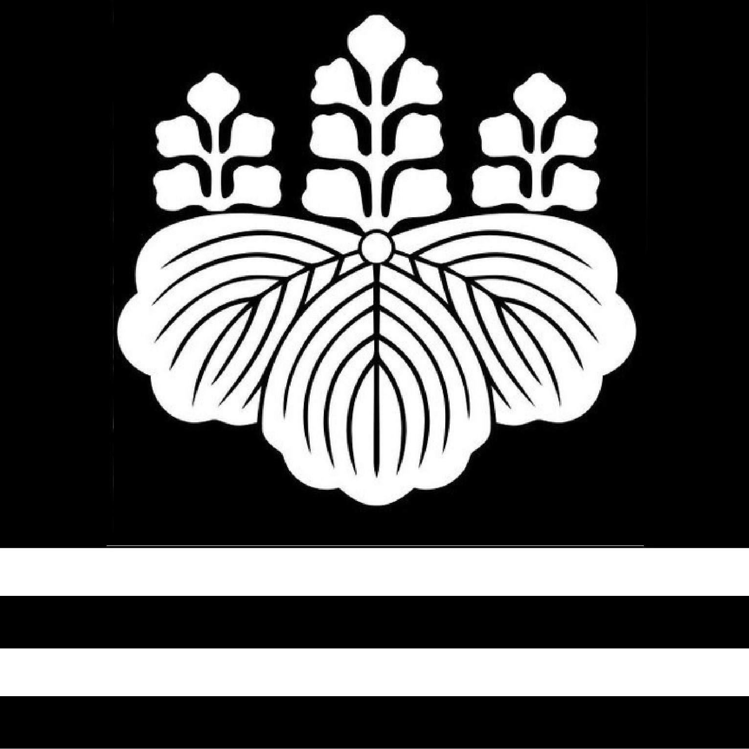 Japanese Crest Paulownia with two bars